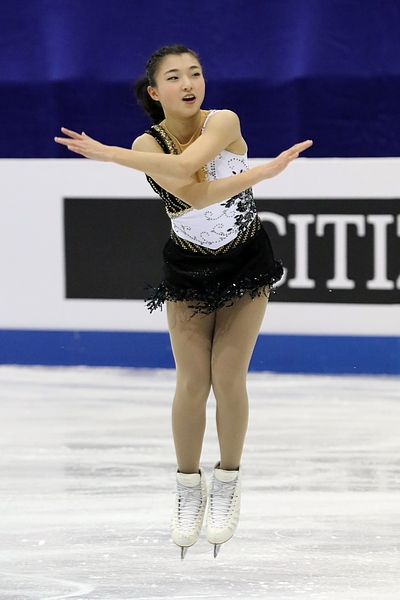 Photos – Junior World Championships 2017 – Ladies